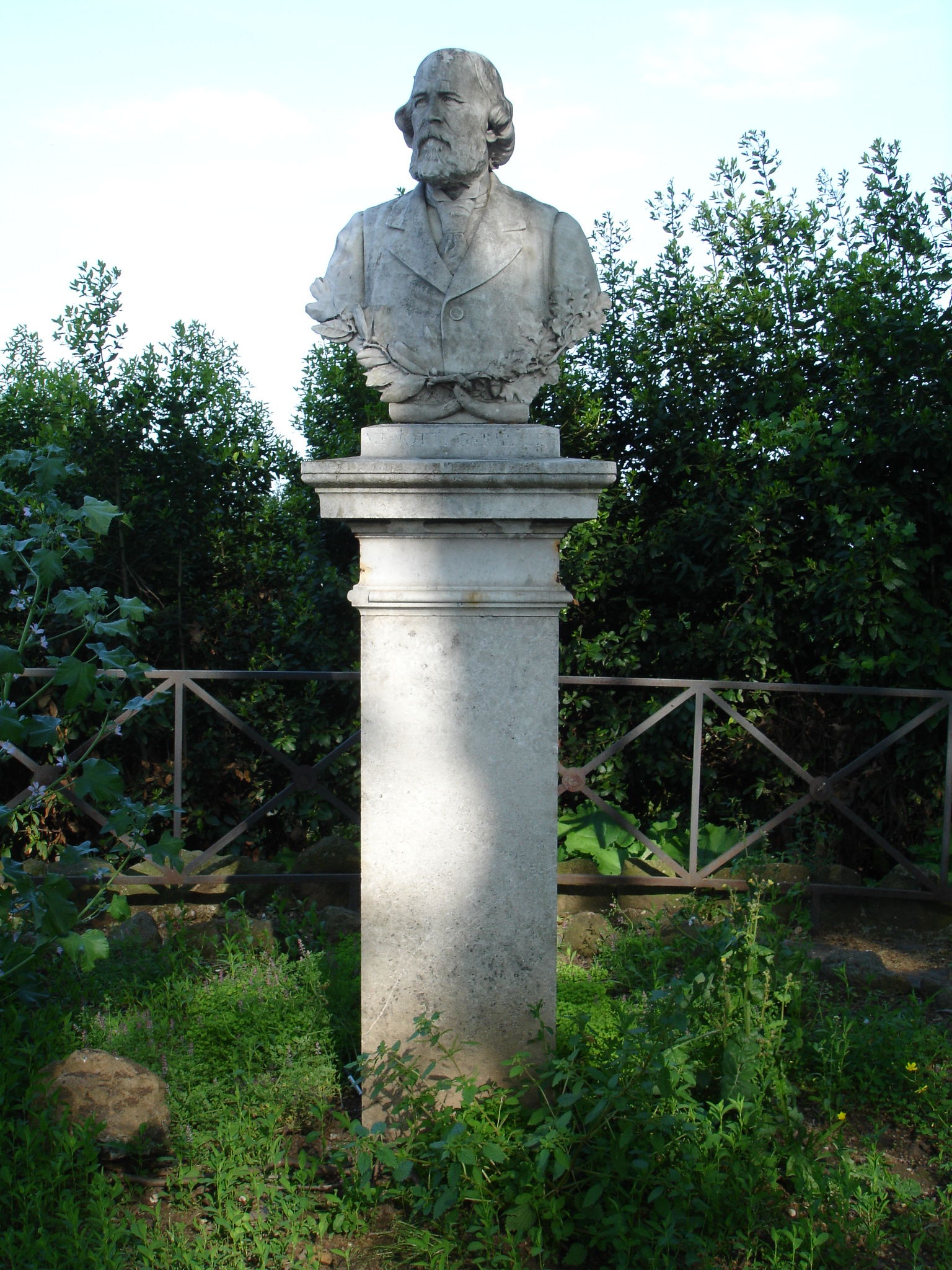 A bust of Menotti Garibaldi in Janiculum in Rome.